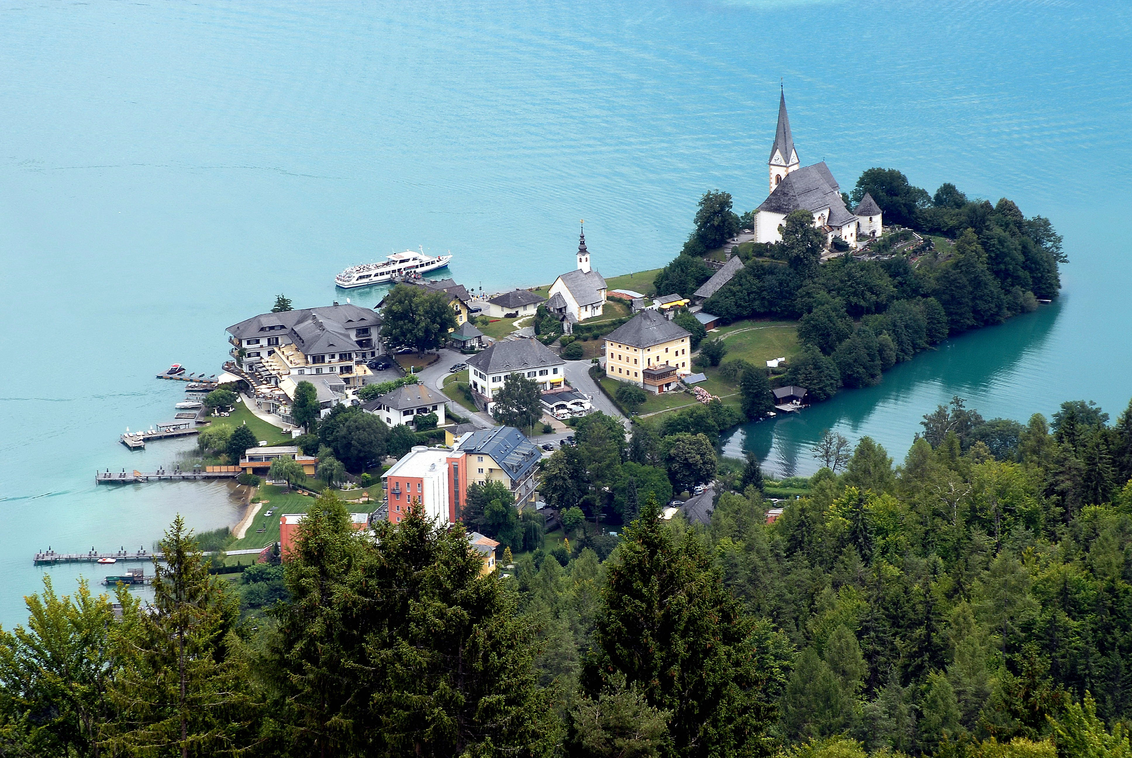 Peninsula of Maria Woerth, situated in the community Maria Woerth, district Klagenfurt-Land, Carinthia, Austria